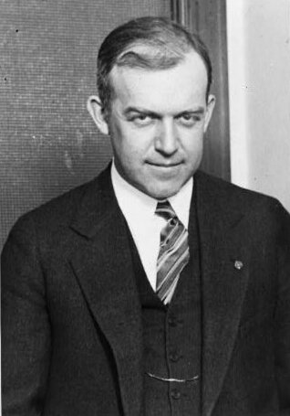 William P. MacCracken circa 1934